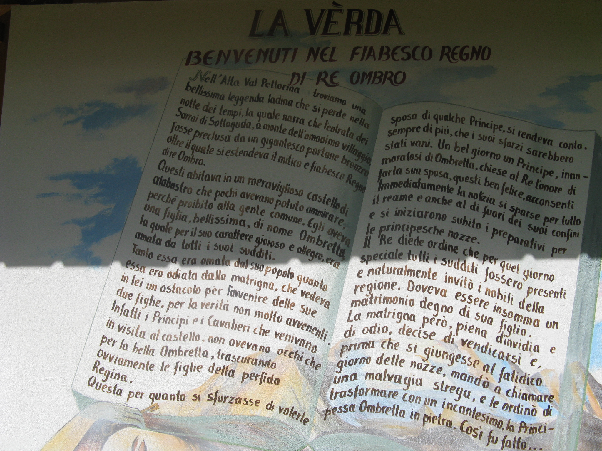 Serrai Gorge, Rocca Pietore/Italy: The Story of the Shadow King (Re Ombro), to be read at the entrance